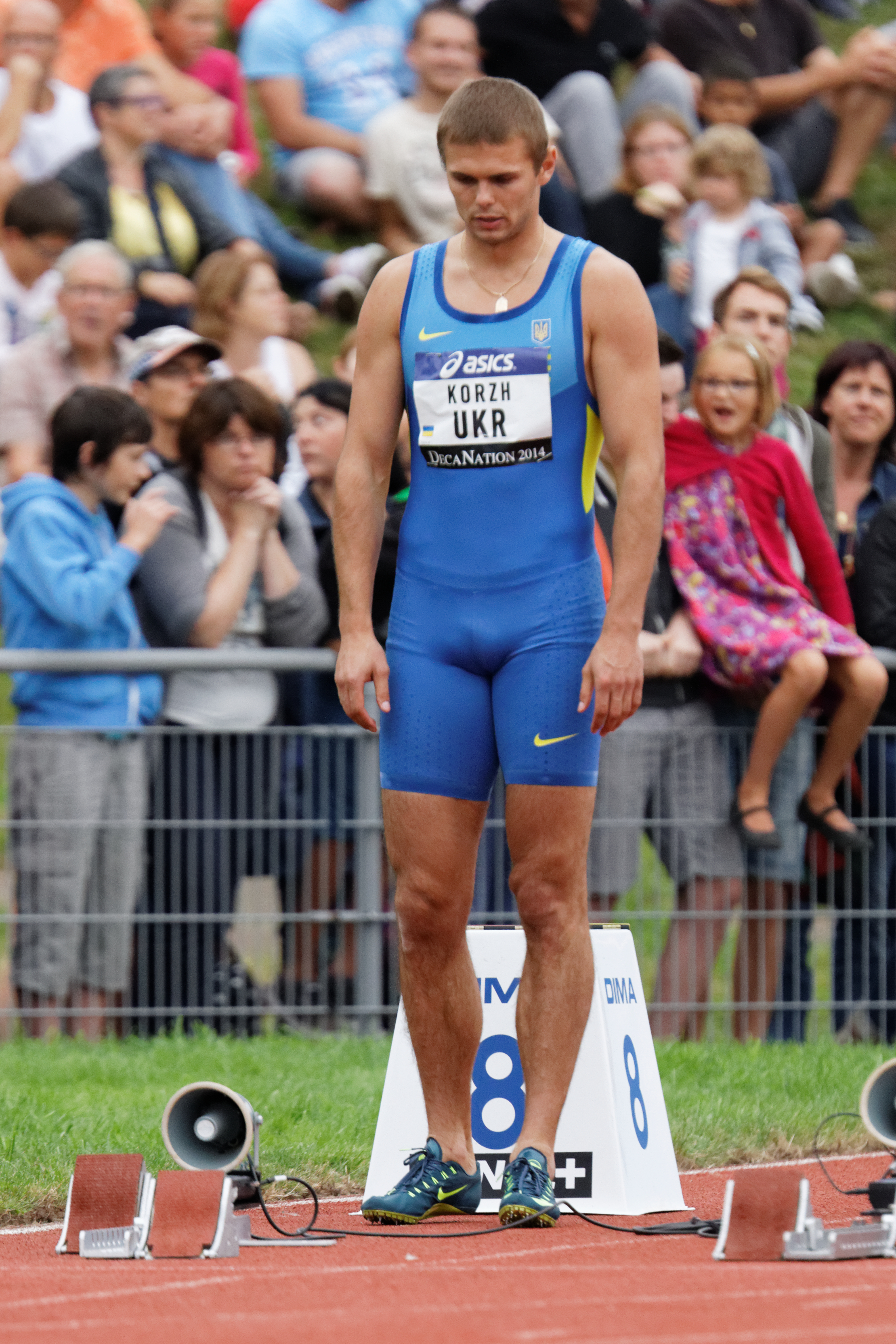 DécaNation 2014. 100m.